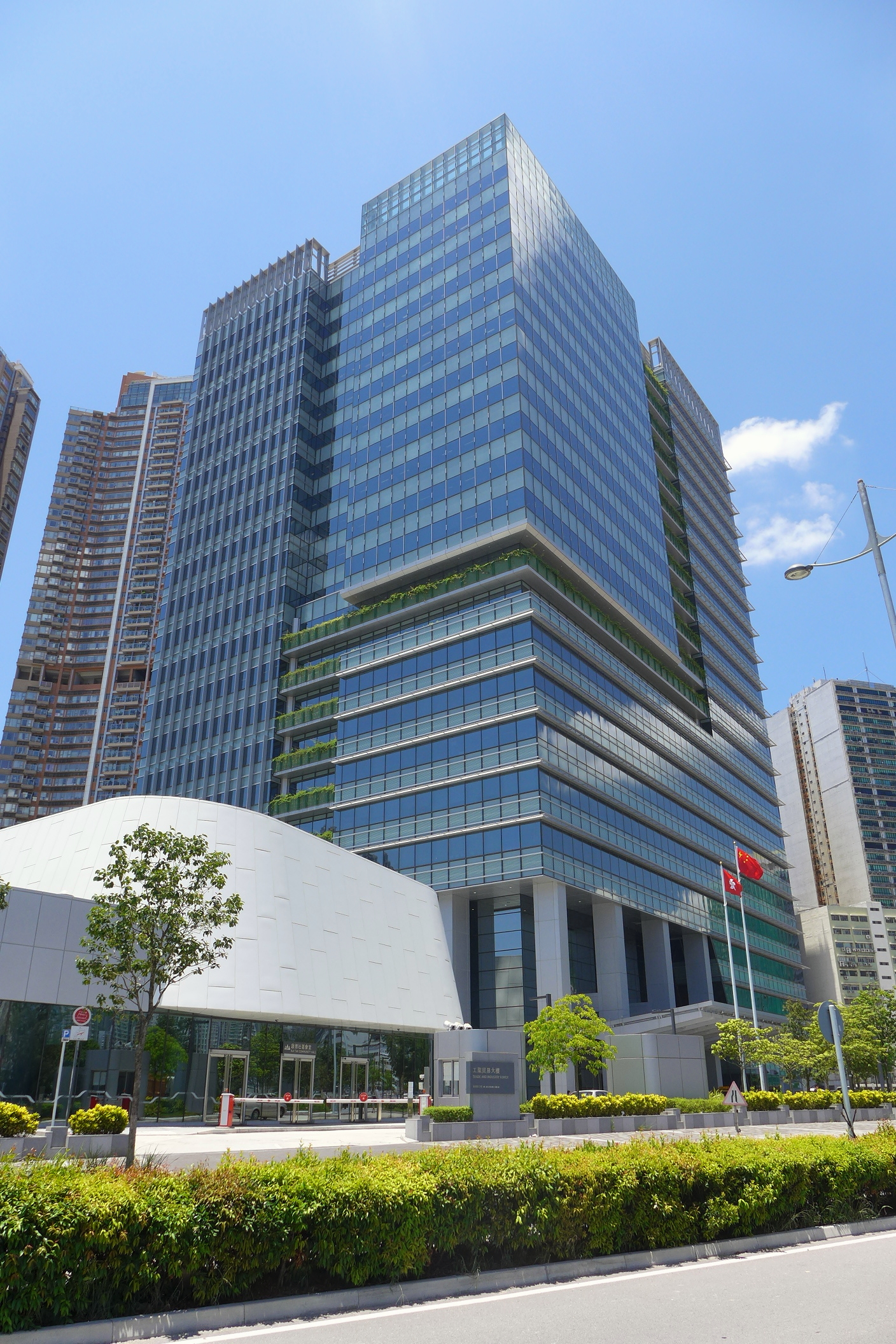 Trade and Industry Tower